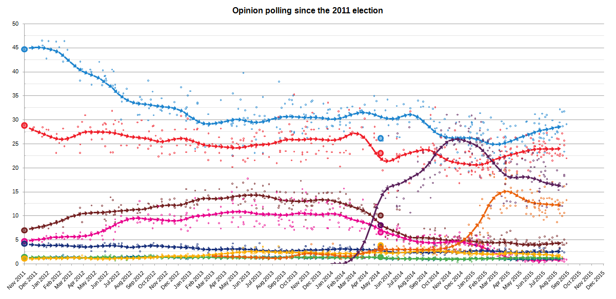 Opinion polling 15-day average leading up to the Spanish general election, 2015 People's Party Spanish Socialist Workers' Party United Left Union, Progress and Democracy Convergence and Union Amaiur Basque Nationalist Party Republican Left of Catalonia Citizens – Party of the Citizenry Podemos